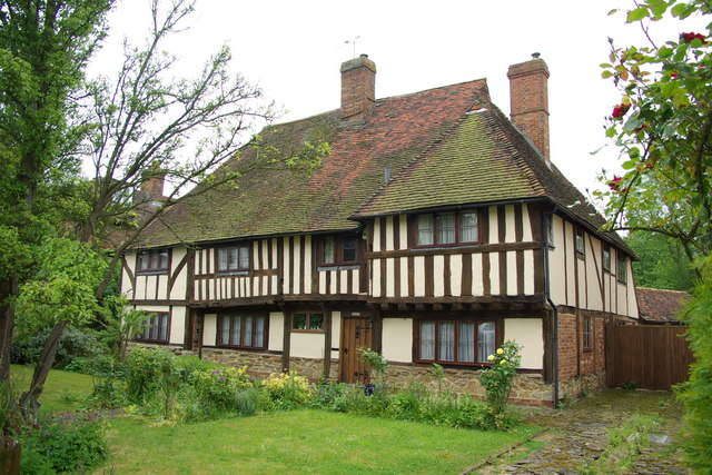 'Chequers' Headcorn, Kent. Next door to Shakespeare House (see photo by Derek Harper 174461) is Chequers not quite as old but still interesting.